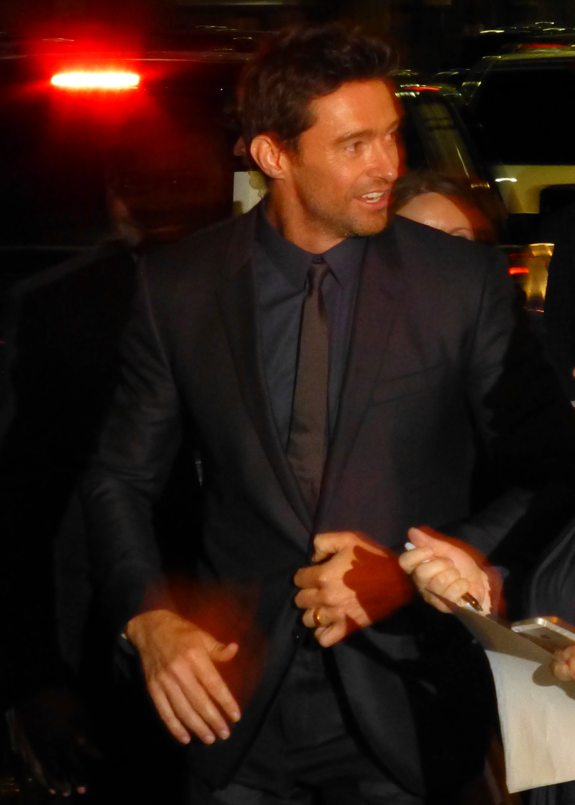 He was nice enough to sign my Wolverine movie poster. Hugh Jackman at the premiere of Prisoners, Toronto Film Festival 2013.